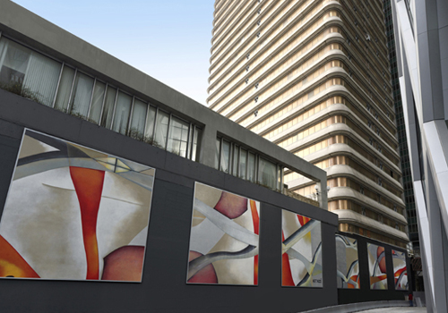 200m² painting, Paris, La Défense, passerelle Alsace, at the foot of Tower D2